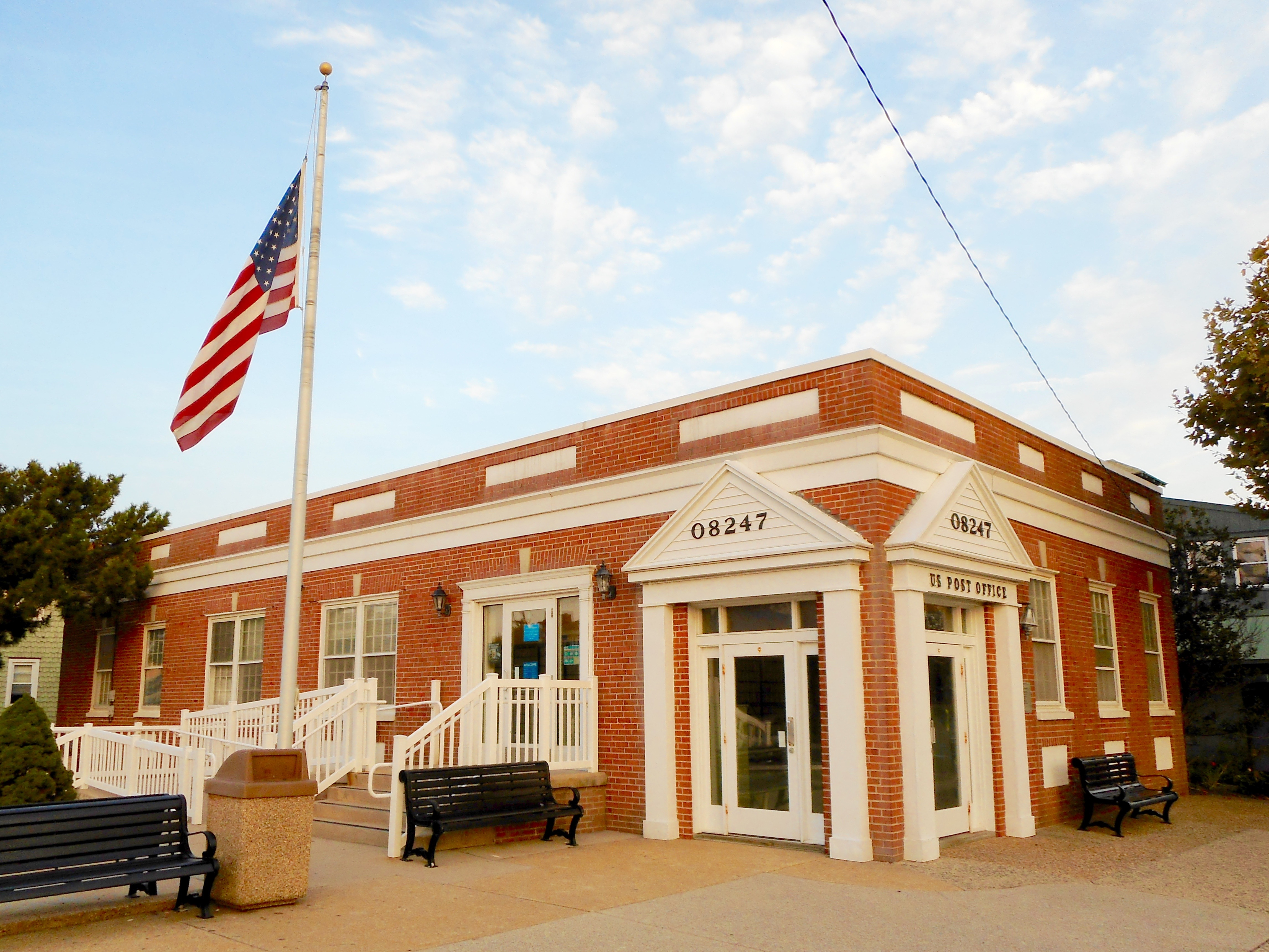 United States Post Office in Stone Harbor New Jersey, zip code 08247. Built in 1957 according to the plaque in front.